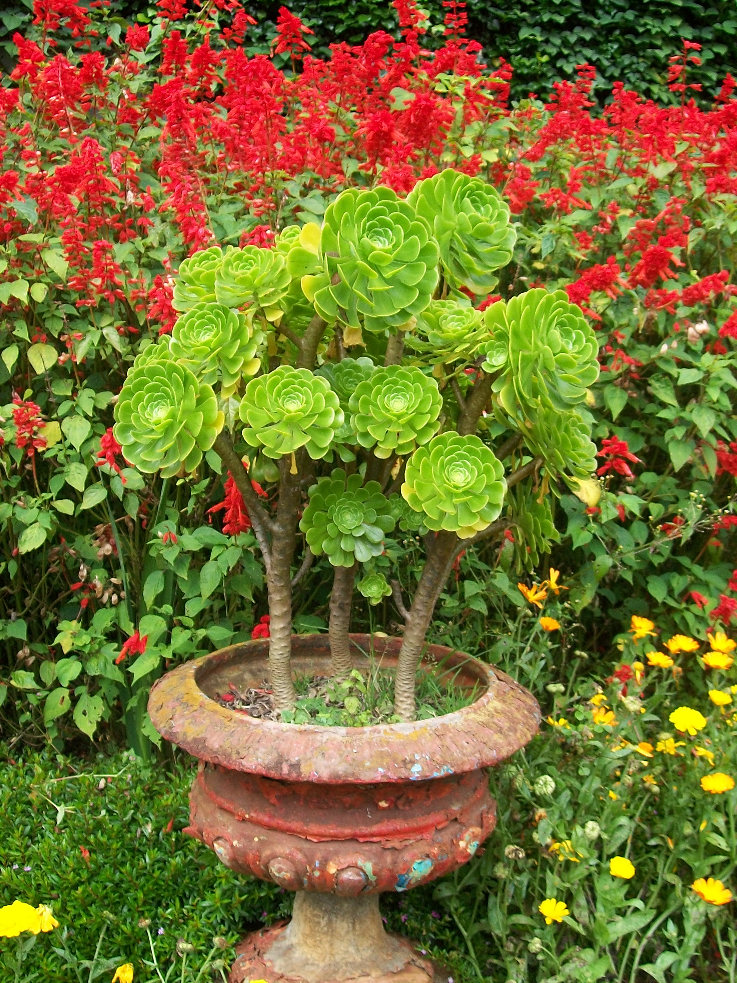 Taken at Botanical garden,OOTY,Tamil Nadu,India